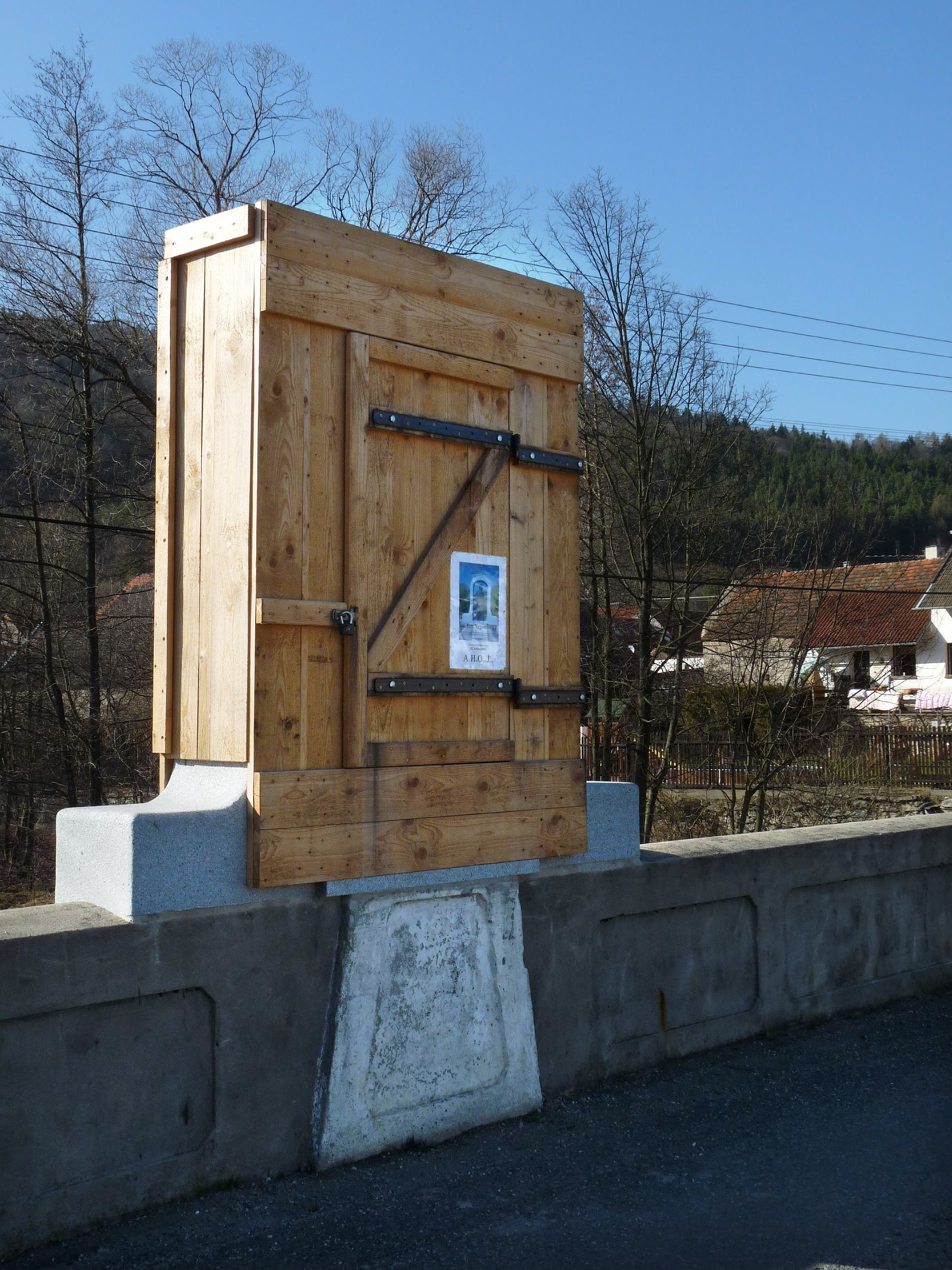 Statue of St. John of Nepomuk on the bridge over the Otava River in the village of Čepice, Klatovy District, Czech Republic ready to be revealed in a few weeks